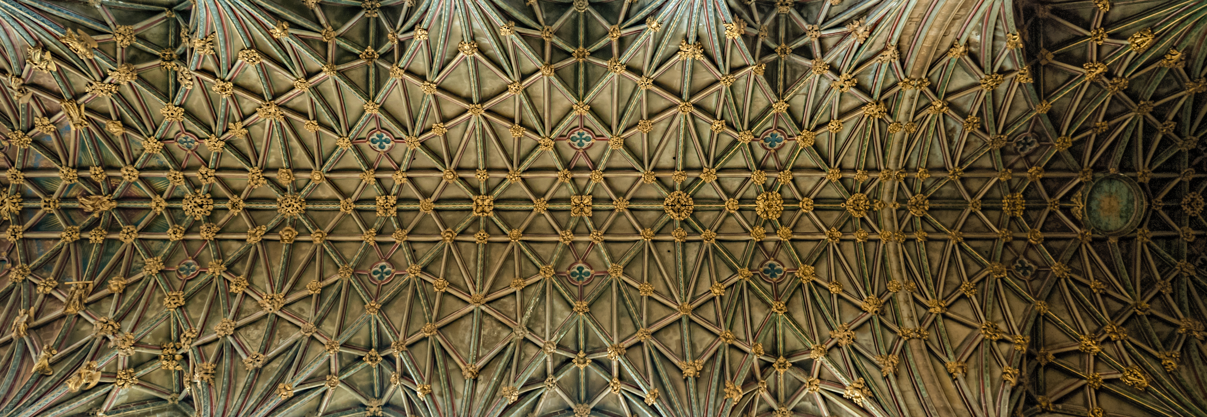 Gloucester cathedral - this photo was featured here